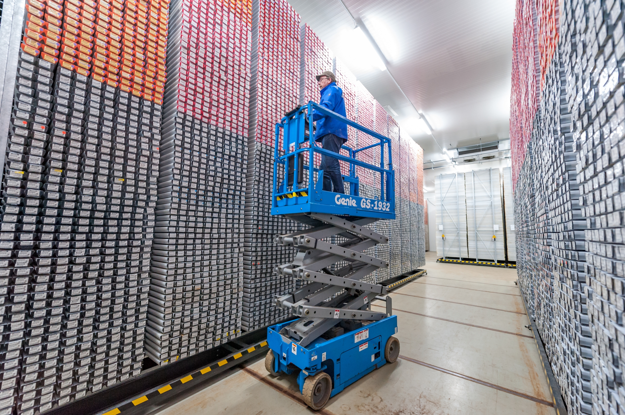 The Bremen core repository of the International Ocean Discovery Program (IODP) at MARUM. Cores from the Atlantic and Arctic Oceans and the Mediterranean, Black and Baltic Seas are stored here.